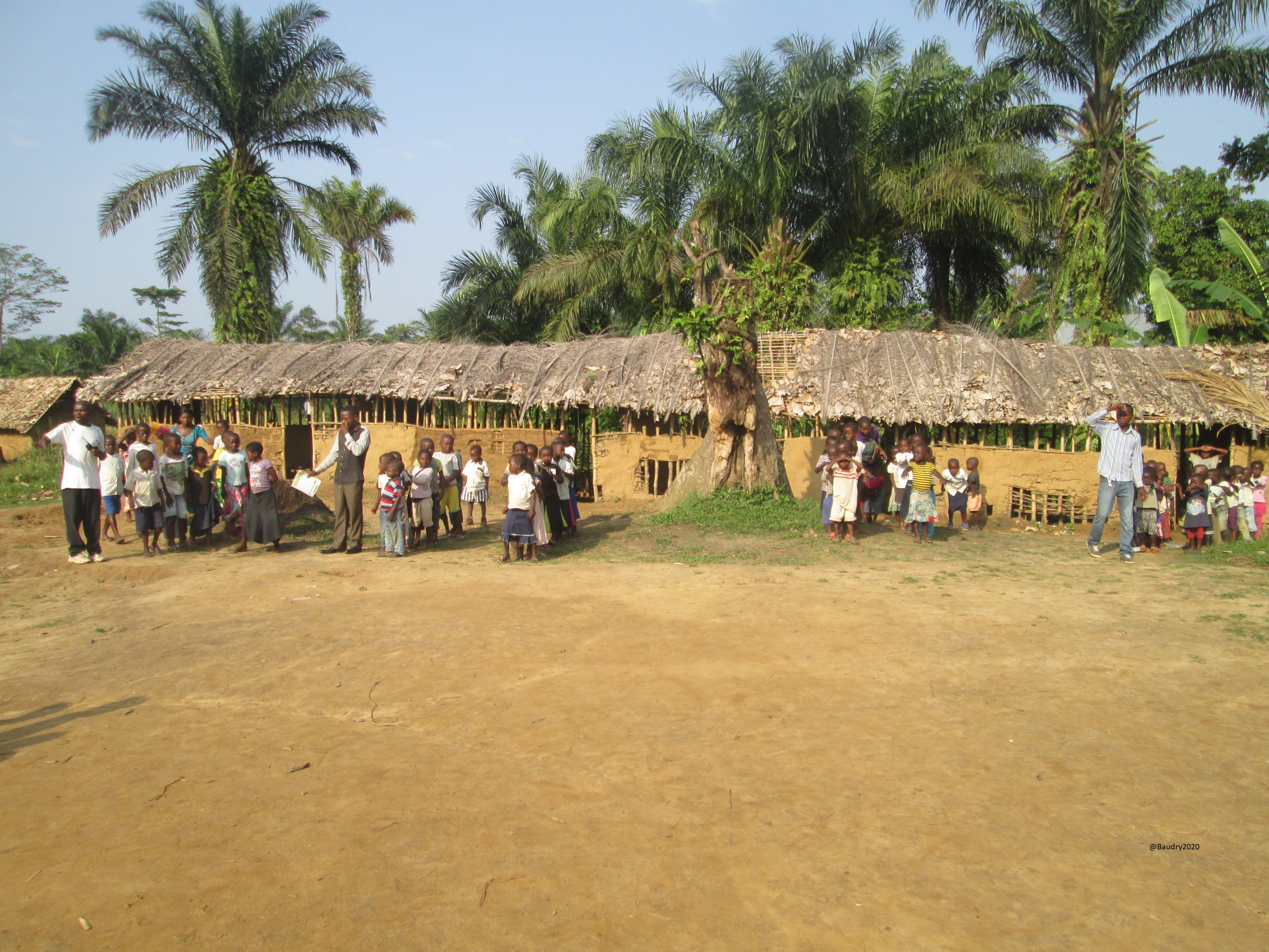 This is an image with the theme "Africa on the Move or Transport" from: Democratic Republic of the Congo